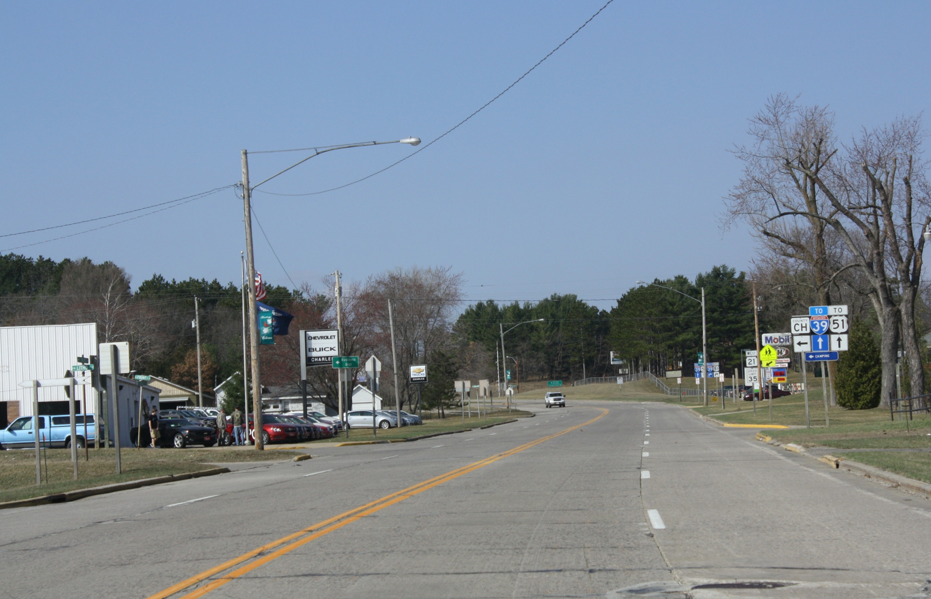 Looking west in downtown Coloma, Wisconsin on Wisconsin Highway 21.